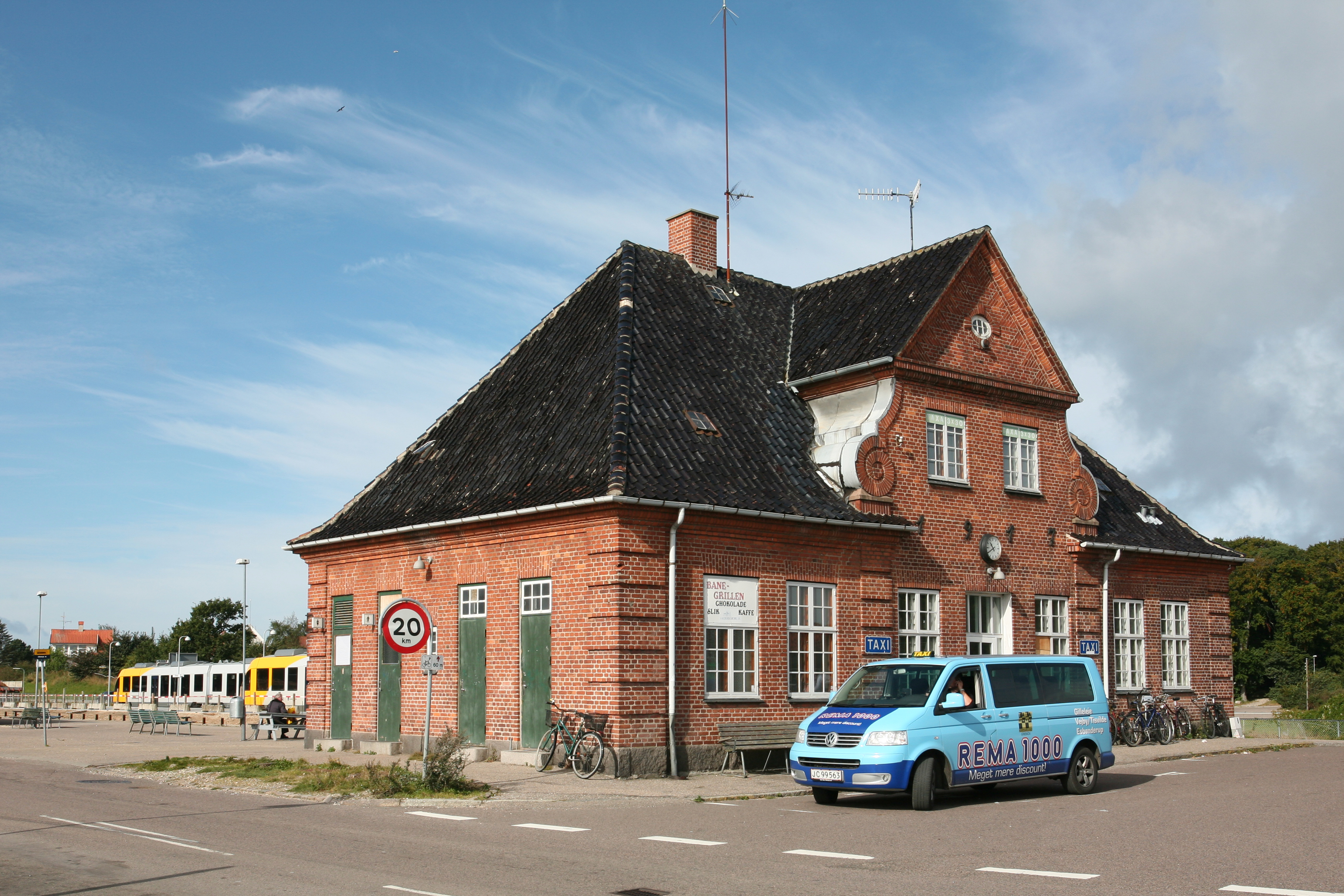 Picture of Gilleleje Railway Station (Gilleleje - Denmark)